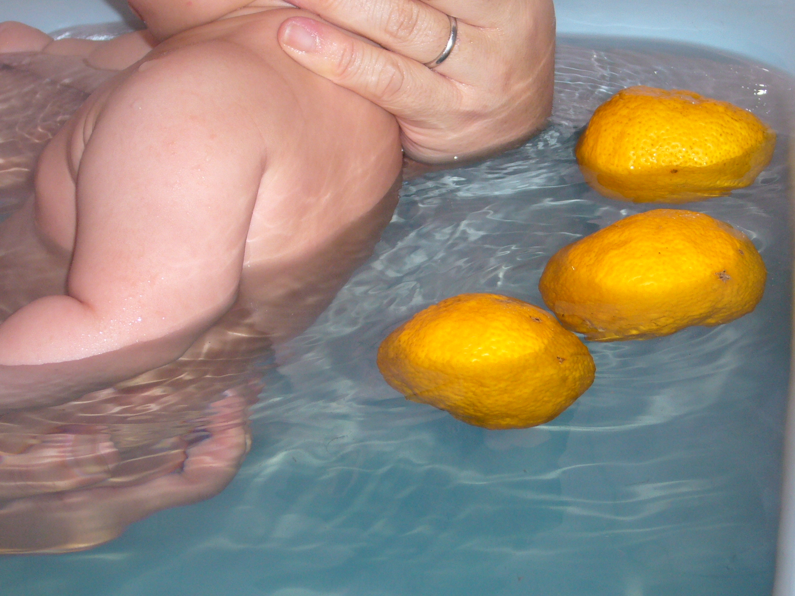 I enter the citron bath at winter solstice not to catch cold,yuzuyu,katori-city,japan